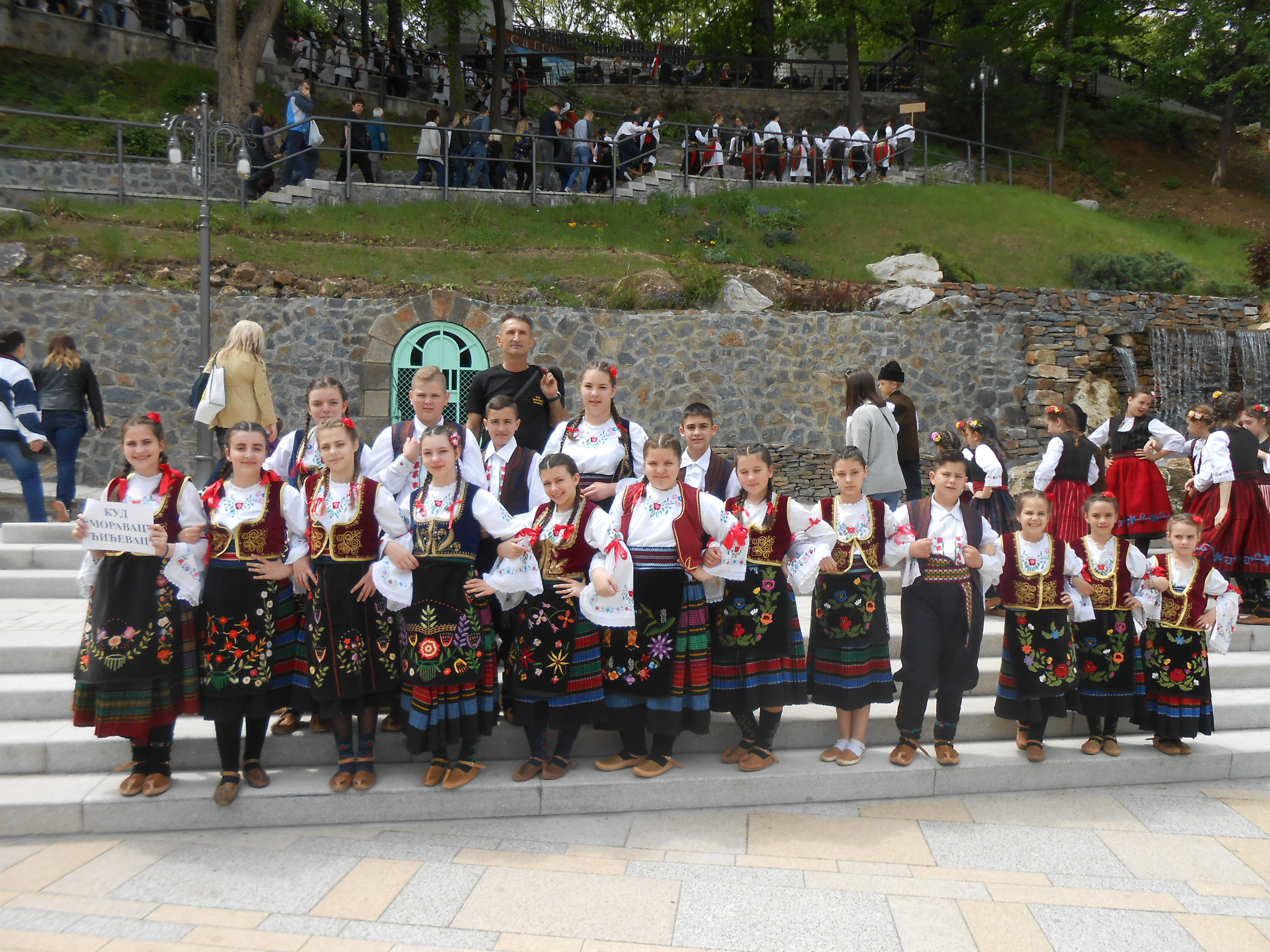 Moravac - dance